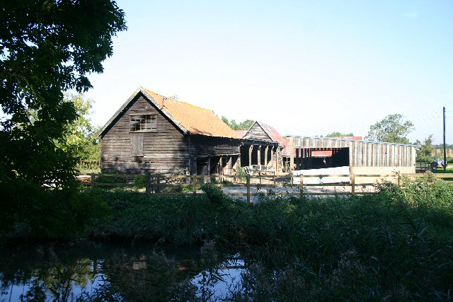 Barns at South Elmham Hall. The grounds of South Elmham Hall are open to the public. In the four acre moated enclosure, which surrounds the Hall, which is thought to pre date the property, is a ruined gatehouse and range of converted farm buildings which incorporate some remnant architecture of the bishops chapel and cloister.